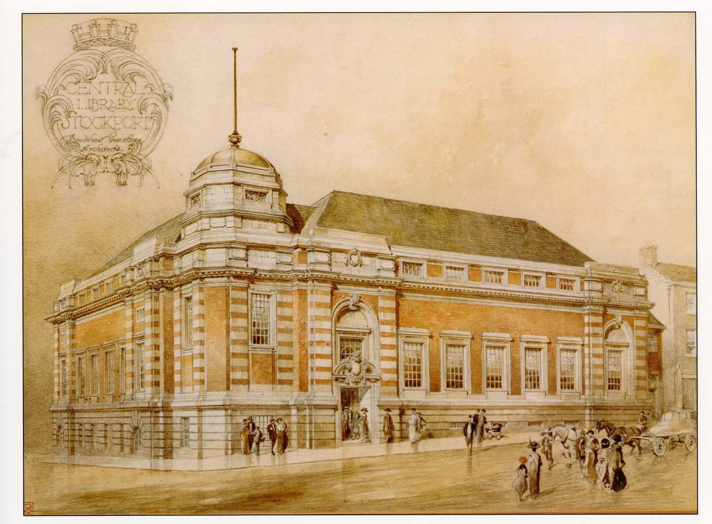 Stockport Free Library, Roger Oldham (1871-1916): Coloured perspective drawing of 1911